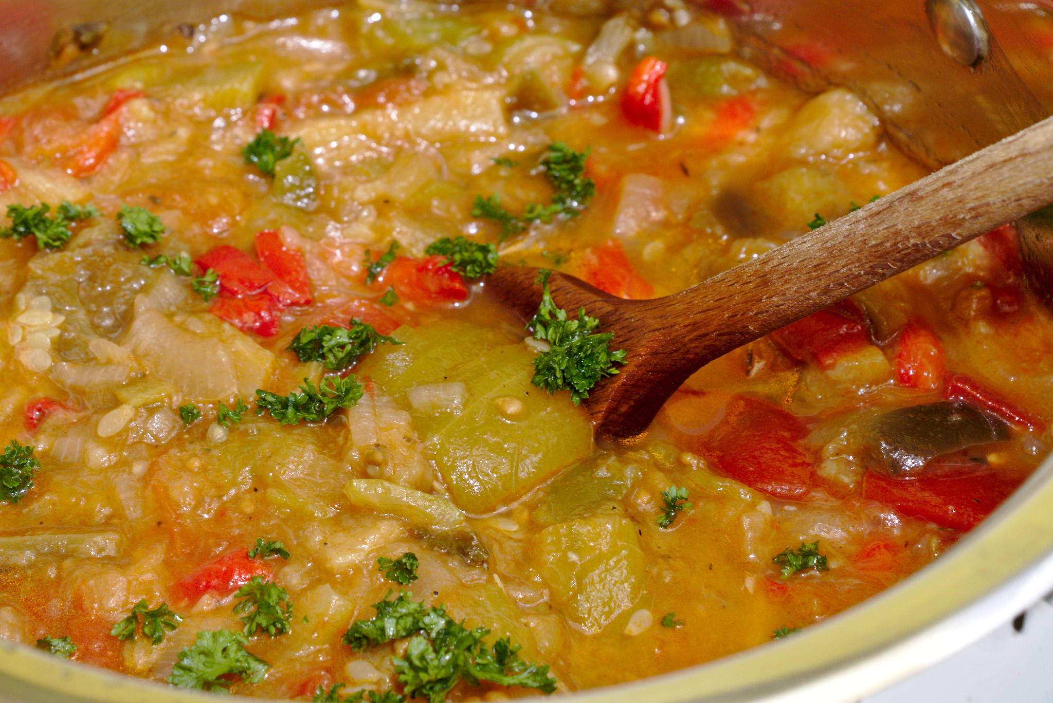 Ratatouille in a pot. End of cooking.